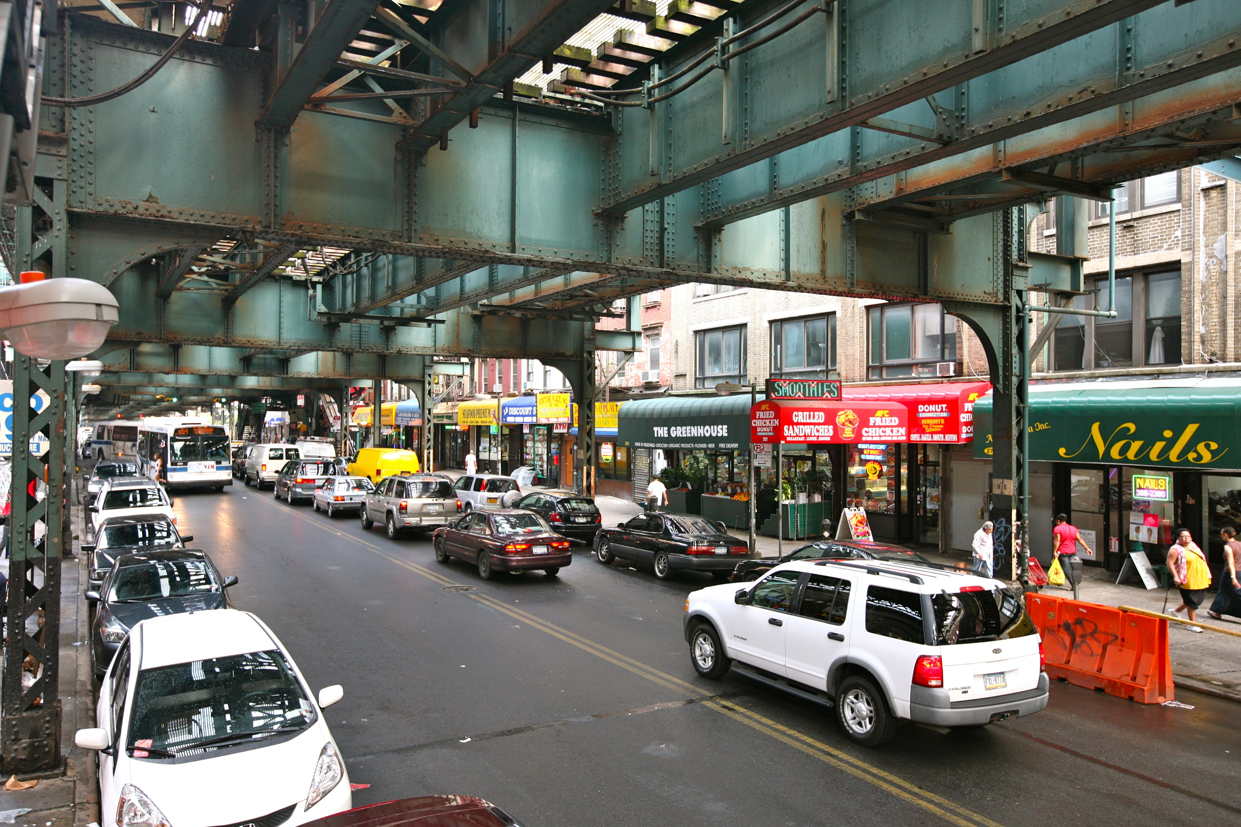 Under the Train Tracks